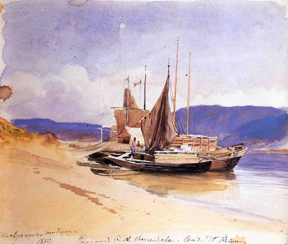 Barques at the shore (watercolor drawing by Fyodor Vasilyev, 1870)